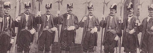 Antichi Alabardieri del Duomo di Monza